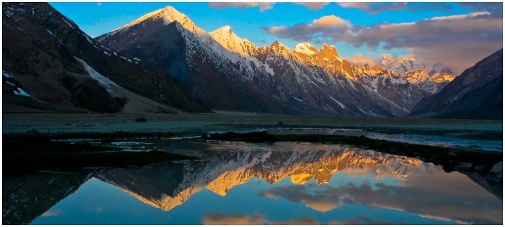 Early morning mountains at Rangdum village in suru valley,135 kms south of Kargil